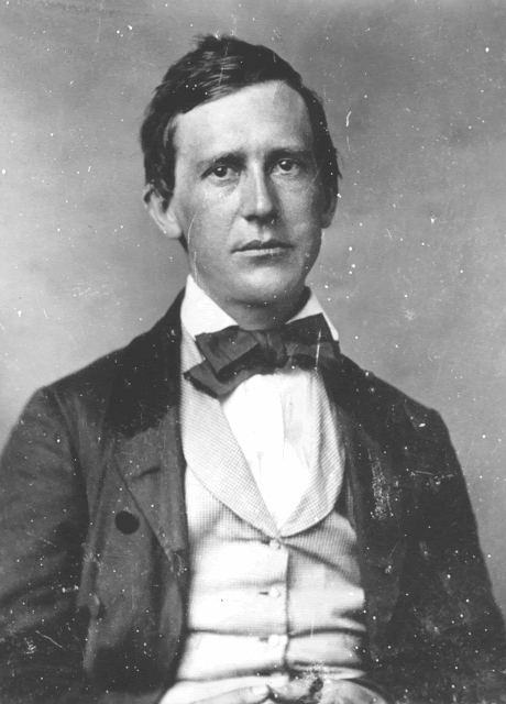 Photographic portrait of American composer Stephen Foster